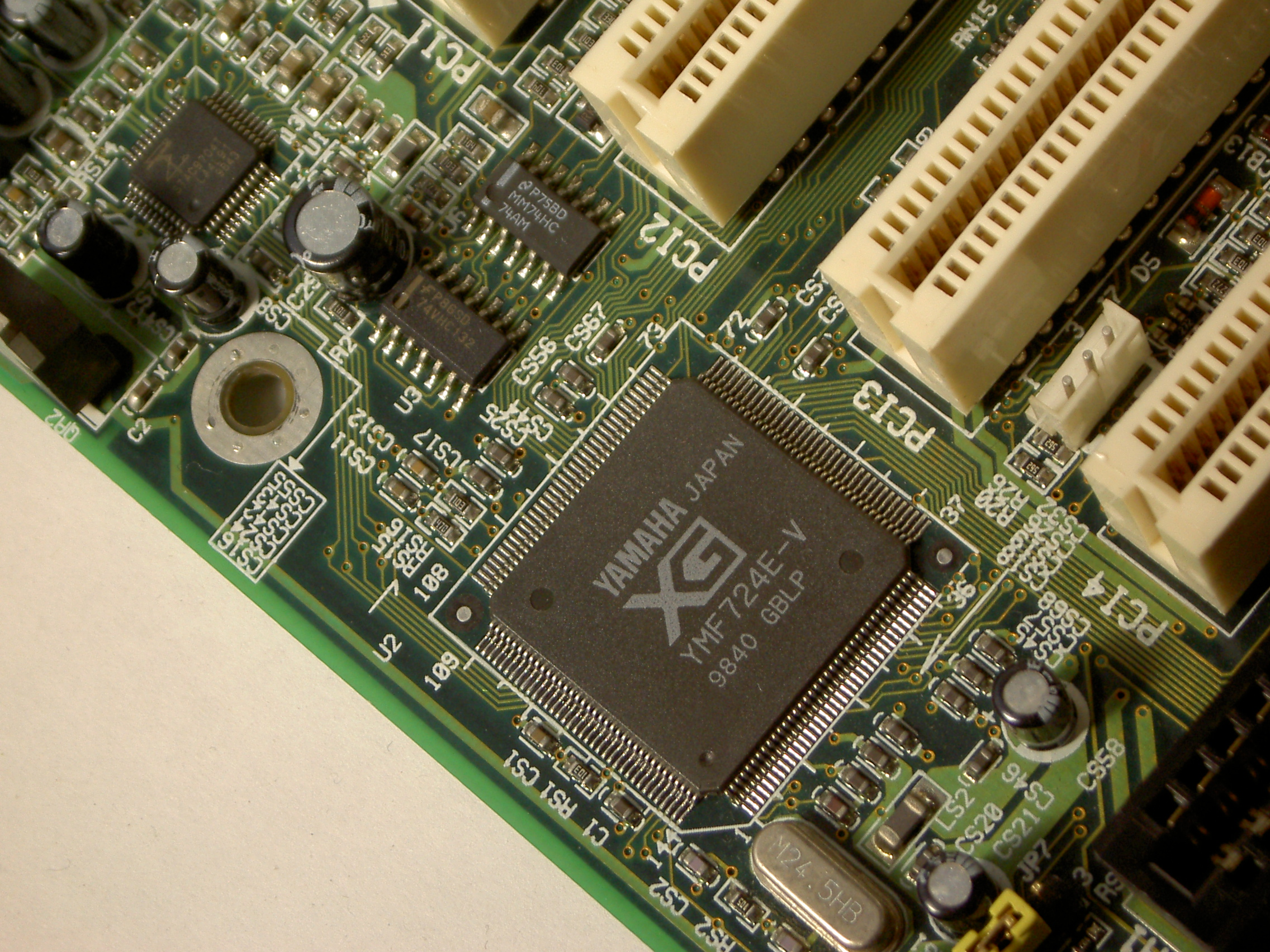 YAMAHA YMF724E-V on EP-BXT